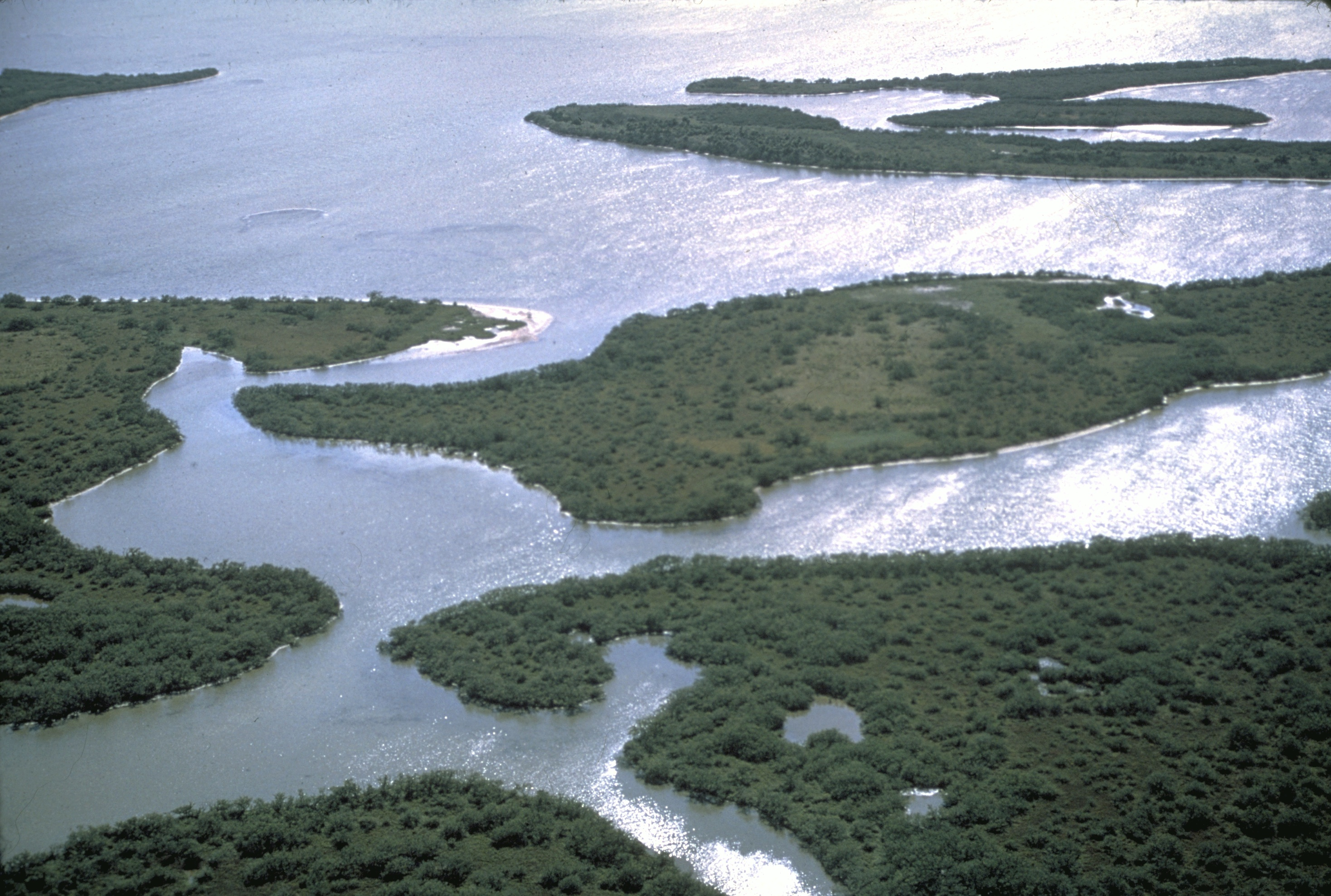 areal view of islands within Canaveral National Seashore, Florida, USA